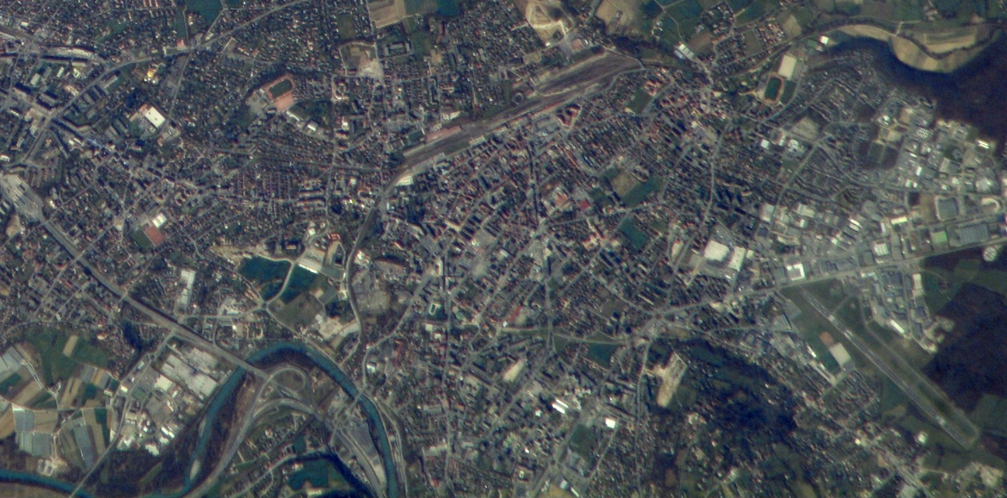 Annemasse, Haute-Savoie, France, from ISS.